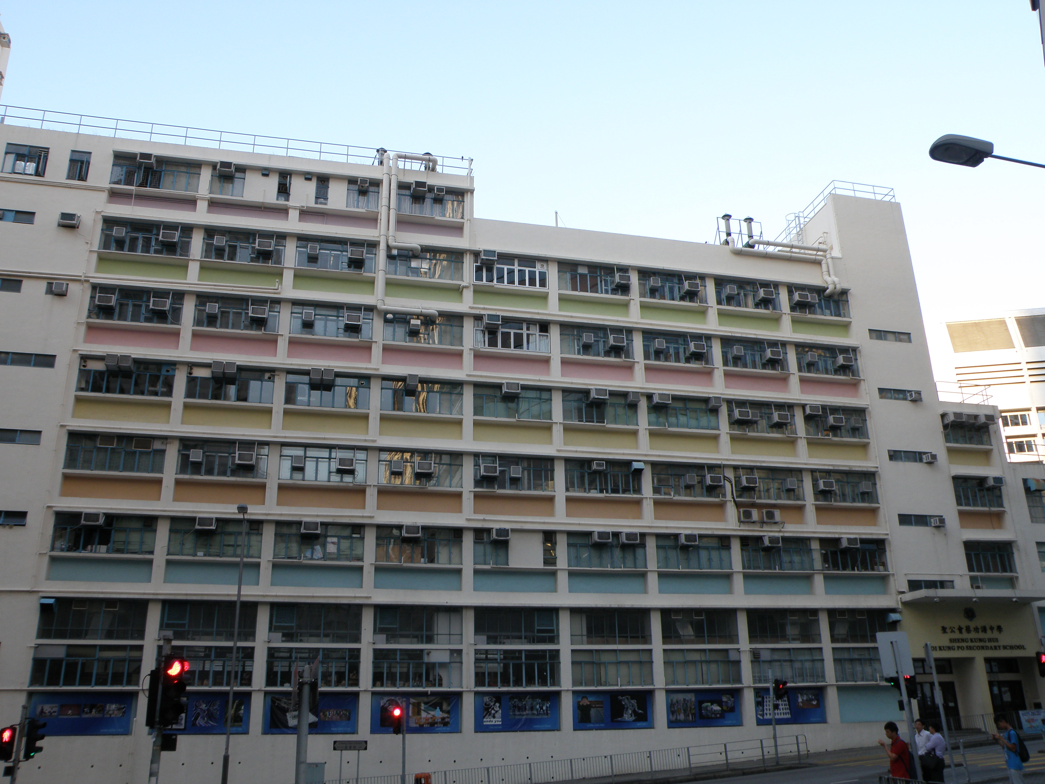 Sheng Kung Hui Tsoi Kung Po Secondary School in Ho Man Tin, Hong Kong.